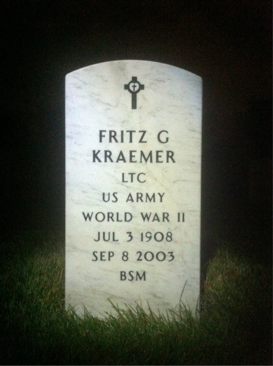 Grave of Fritz G. A. Kraemer at Arlington National Cemetery